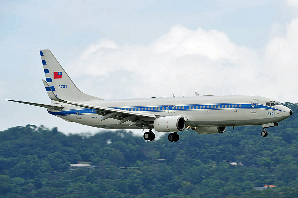 3701 B737-8AR RoC Air Force. Taipei Songshan. September 11, 2015.